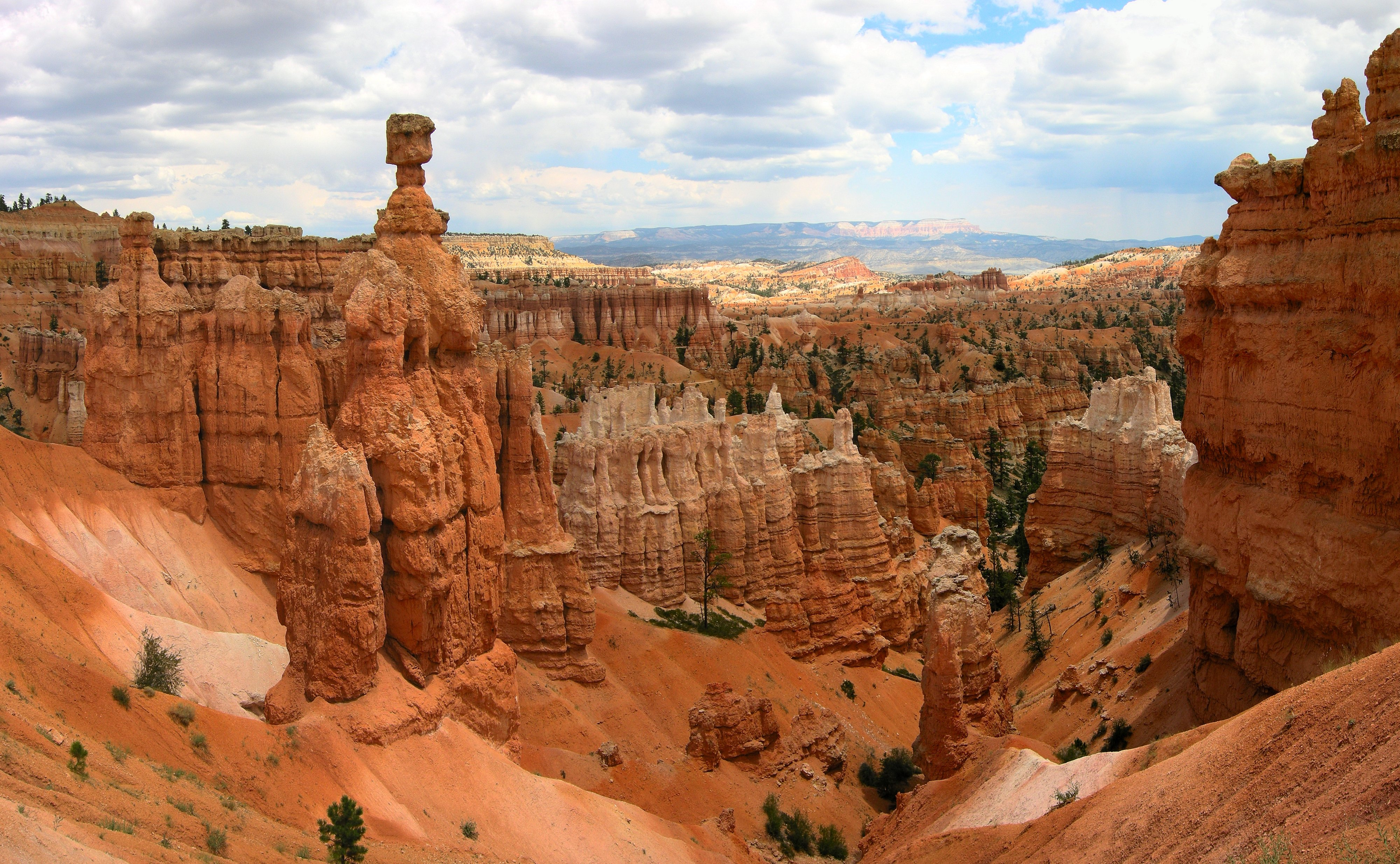 Thor's Hammer, Bryce Canyon National Park, Utah, USA